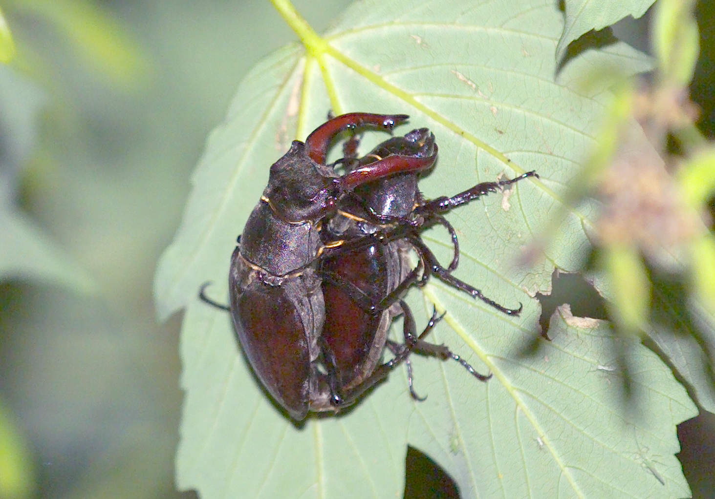 Stag Beetles mating. Taken by Marc Van Hoorn 06/2007. Author source.